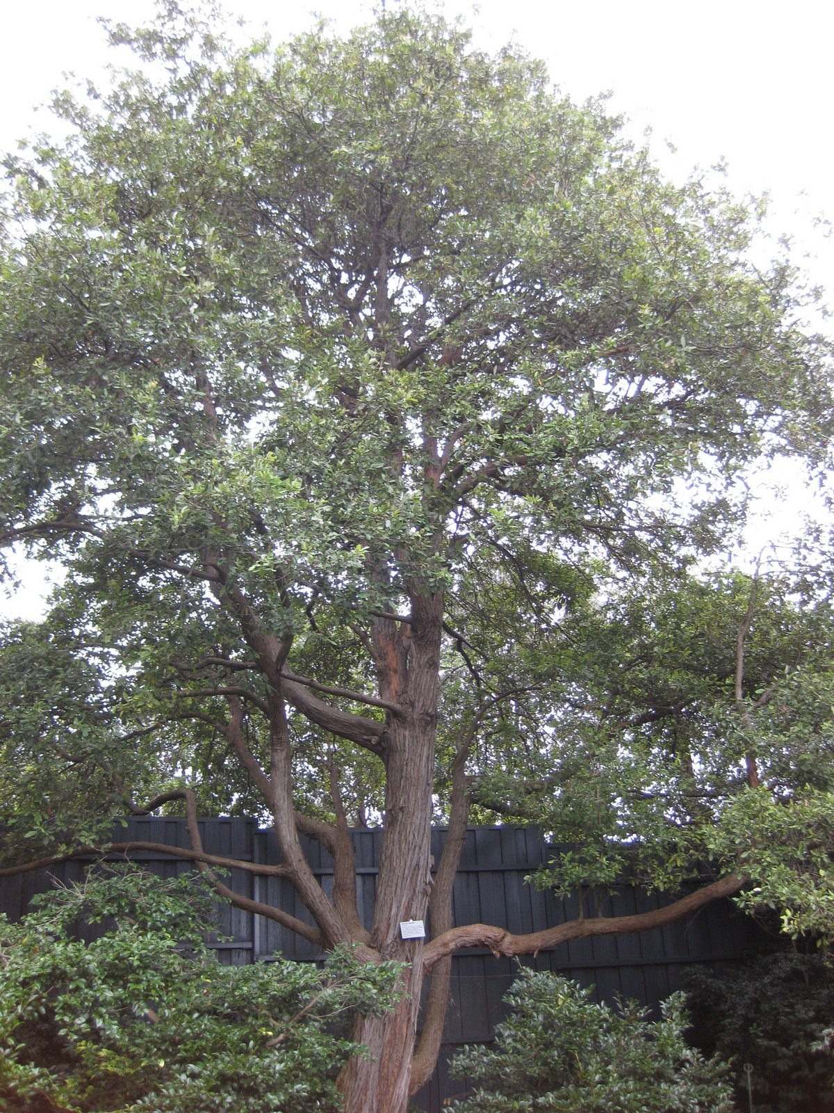 Photographed at the Royal Botanic Gardens Sydney (Australia) in January